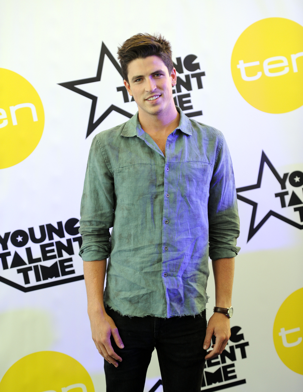 Scott Tweedie at the Young Talent Time media event at Luna Park in Sydney, Australia.